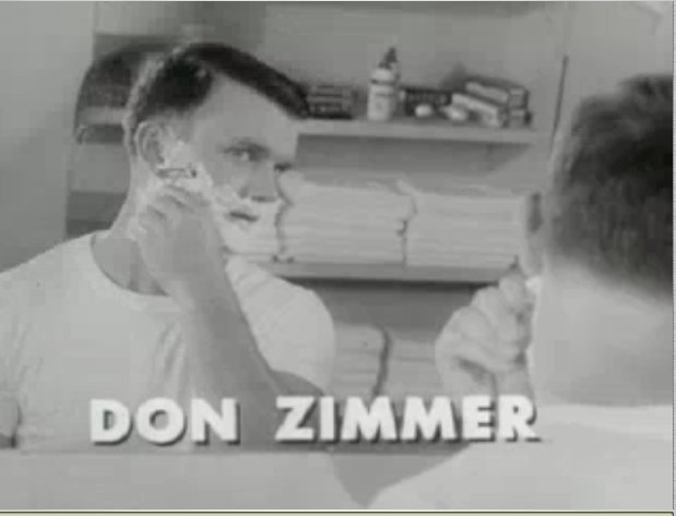 Don Zimmer seen in an old commercial for Gillette razors.